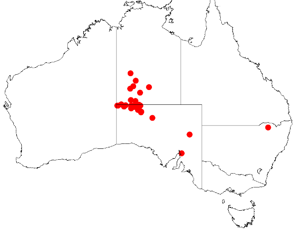 Scaevola collina occurrence data from Australasian Virtual Herbarium downloaded 12 May 2019 (no doi)